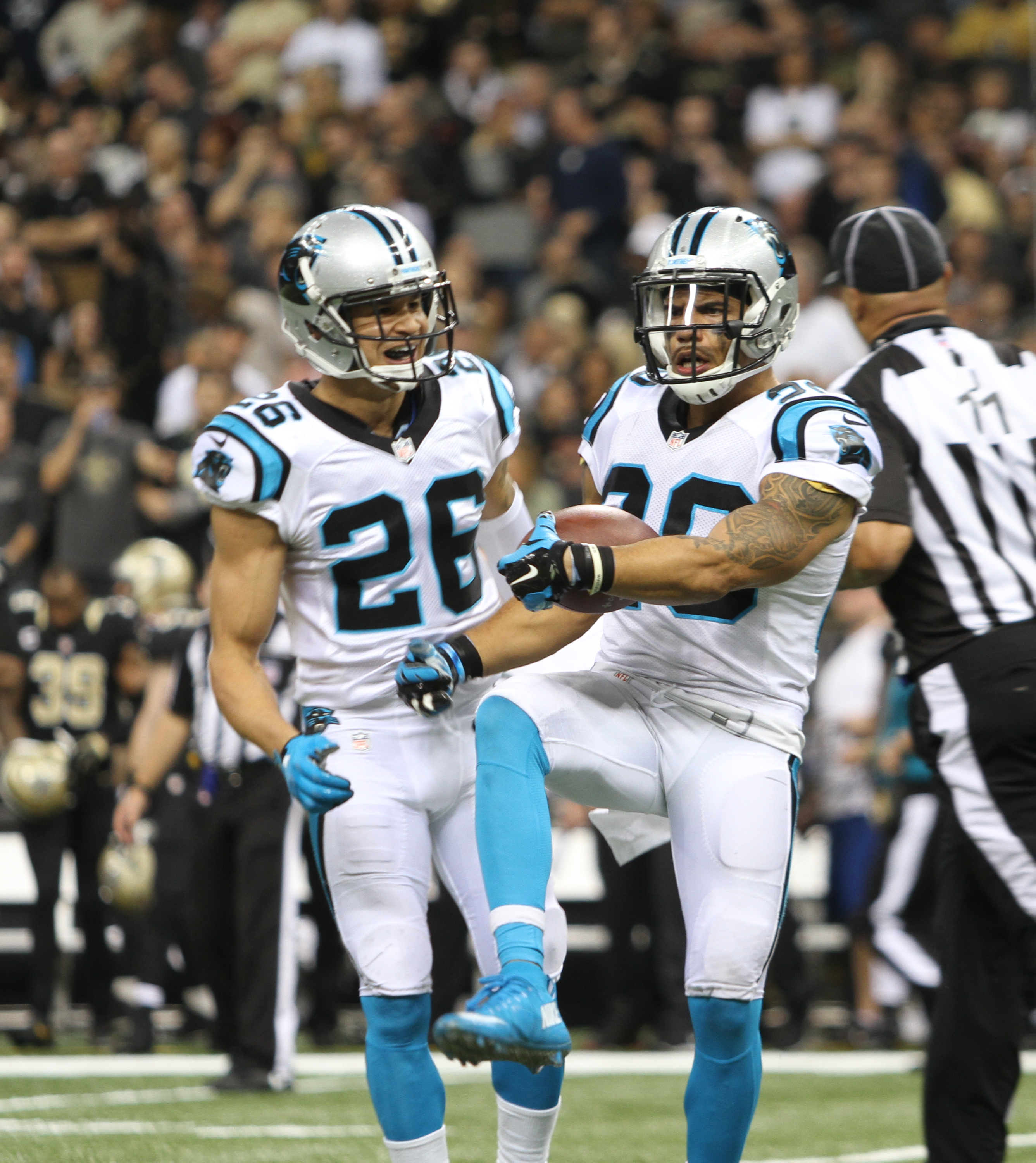 New Orleans Saints vs Carolina Panthers, December 6, 2015, Tammy Anthony Baker, Photographer